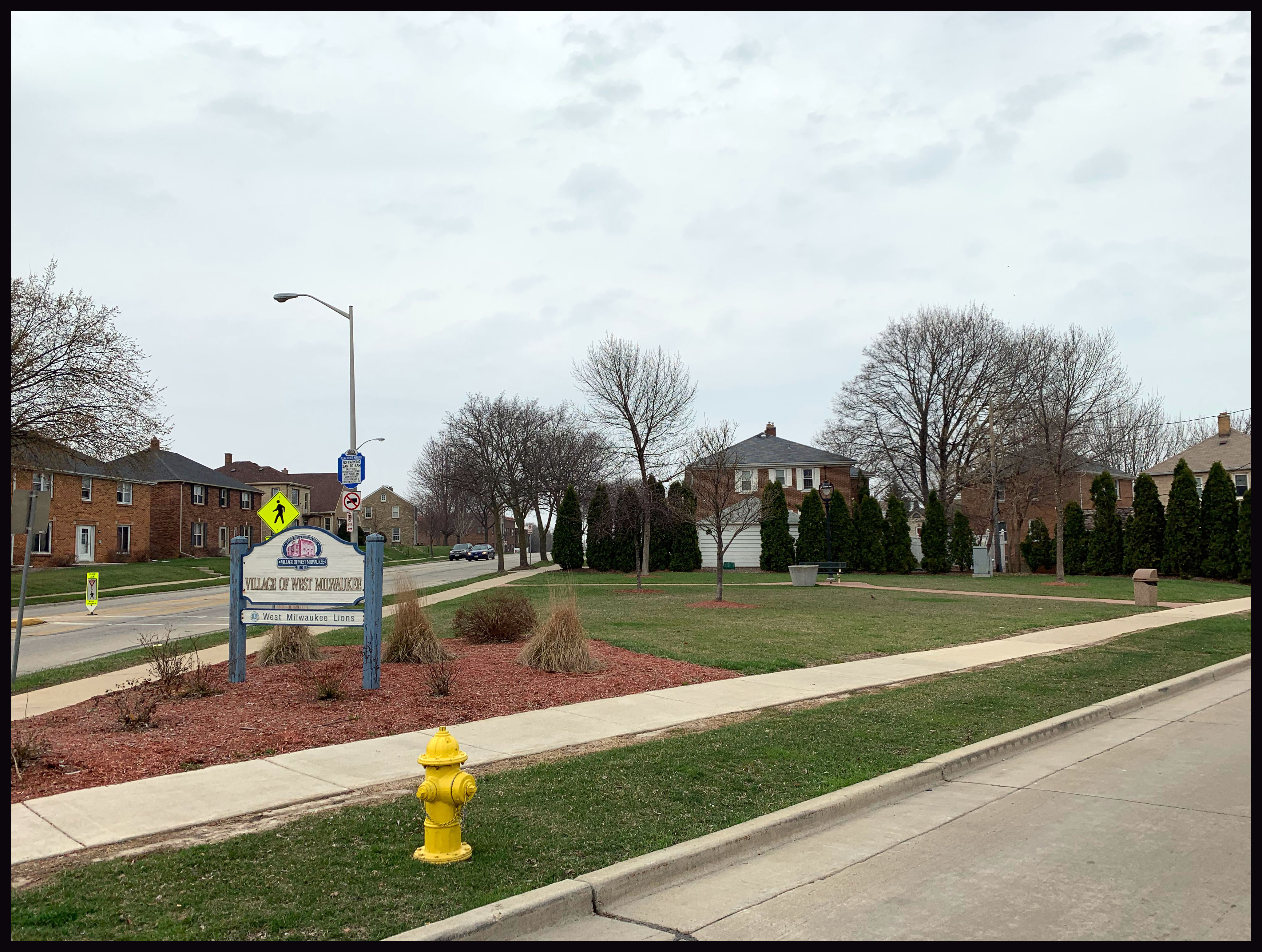 Lions Park in West Milwaukee